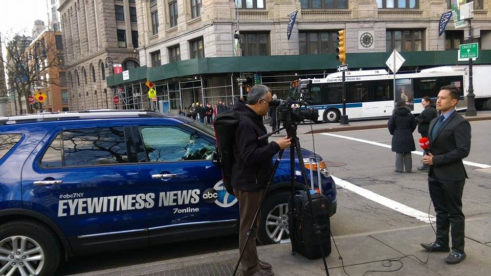 ABC newscrew in NYC